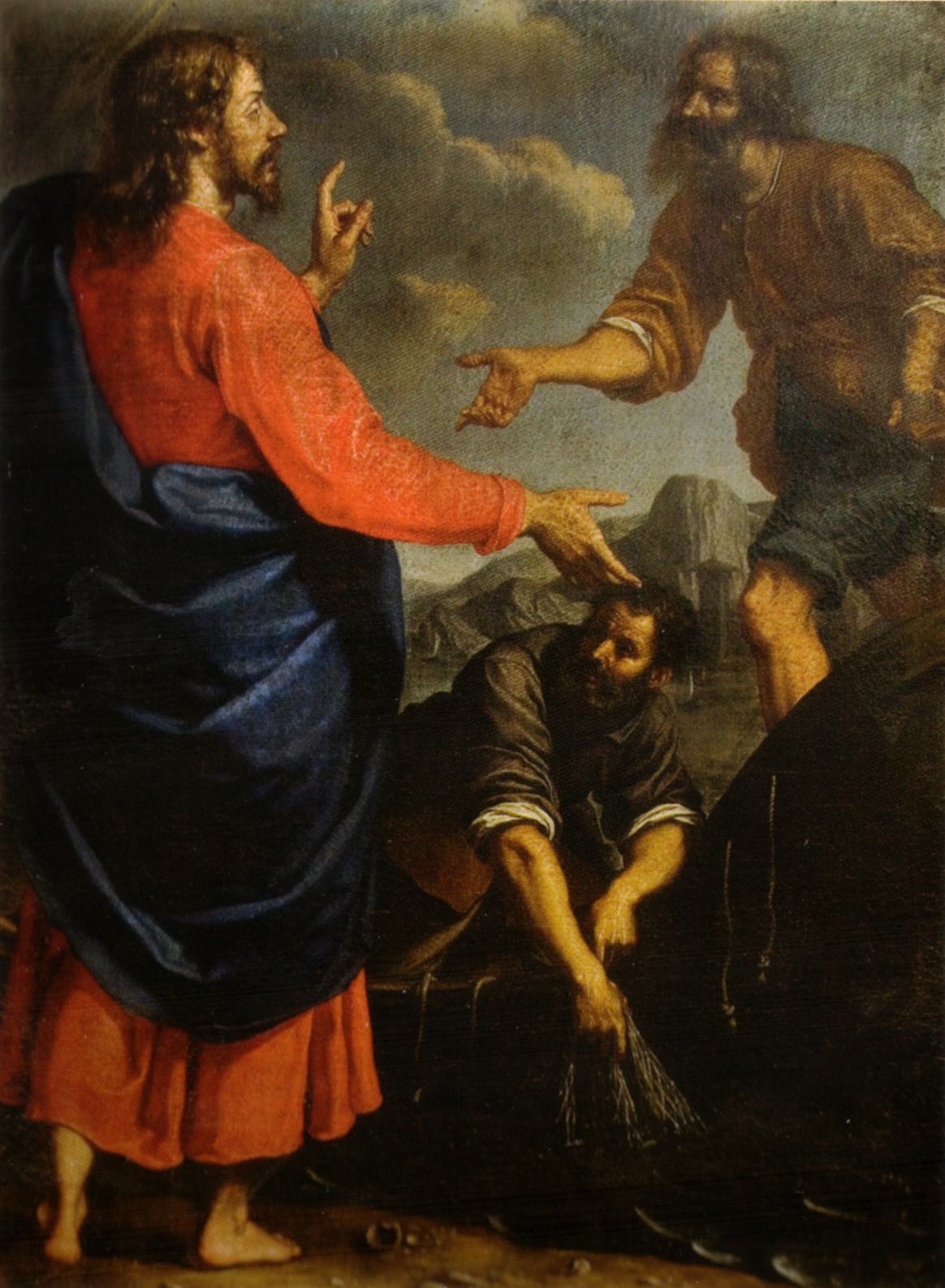 Vocation of St Andreas and St Peter